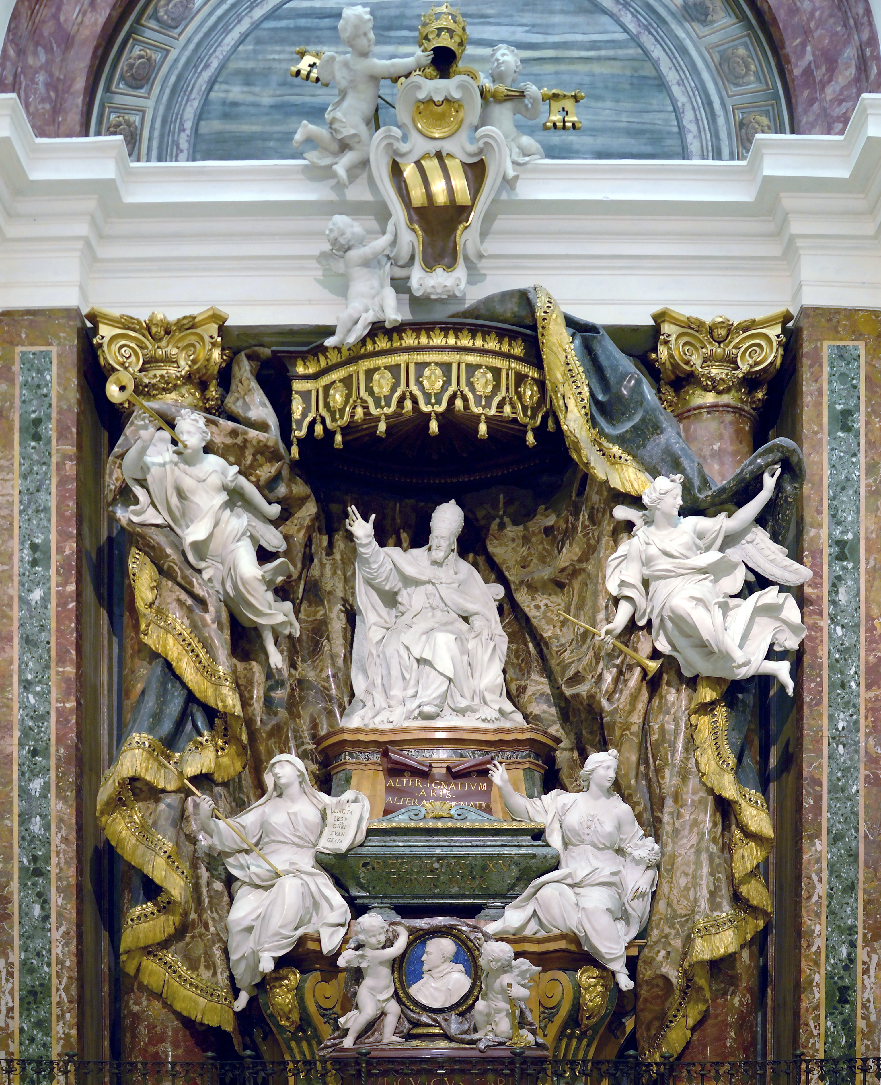 Tomb of Pope Gregorius XV